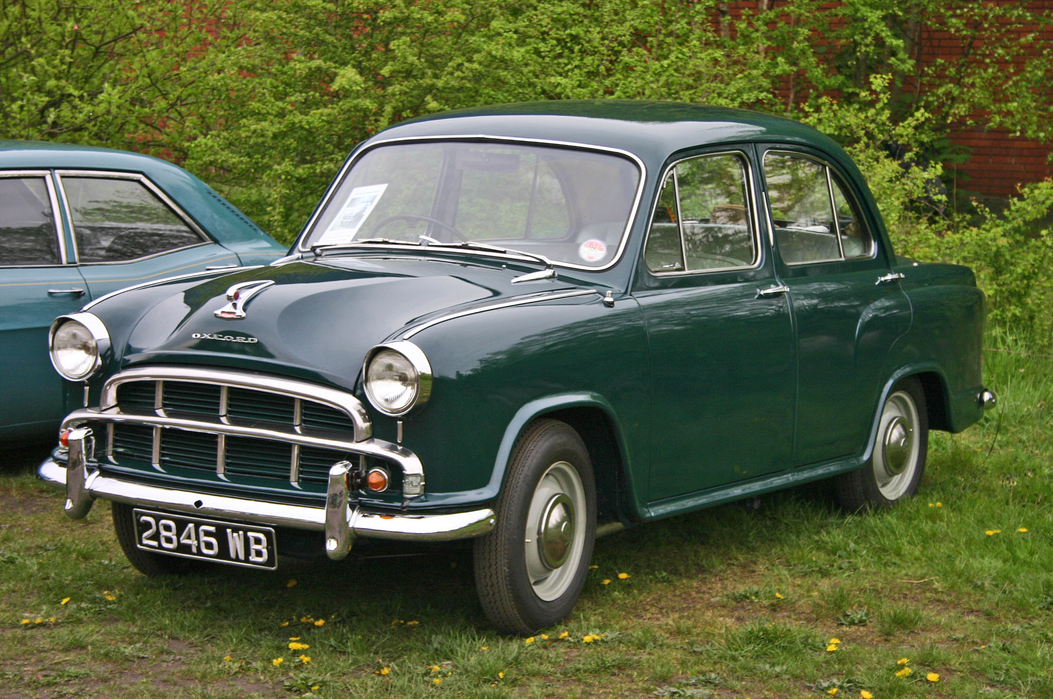 The Morris Oxford Series III (and Isis Series II) used a developed version of the Oxford Series II body, which could be specified in the then fashionable two tone colour scheme. (DVLA) first registered 26 August 1957, 1489cc